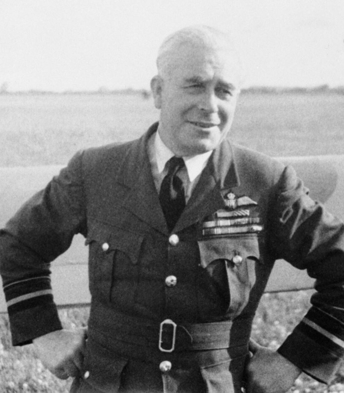 This image is a digitized photograph of Air Vice-Marshal Richard Saul. The image was taken from where it was marked as Crown Copyright. Saul retired in mid-1944 and so the photograph is more than 50 years old and is therefore now in the public domain.